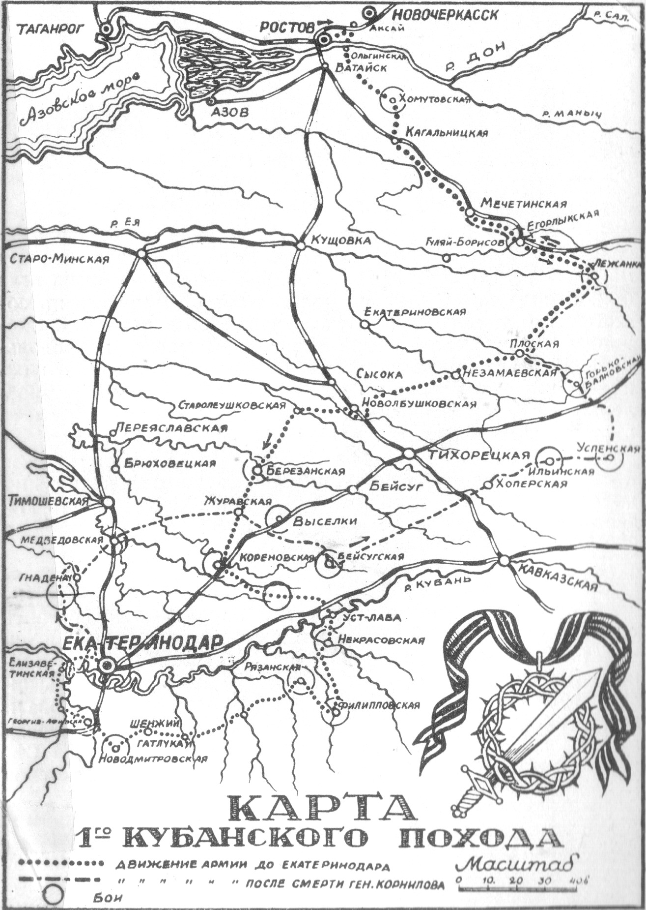 First Kuban campaign of the Volunteer army.